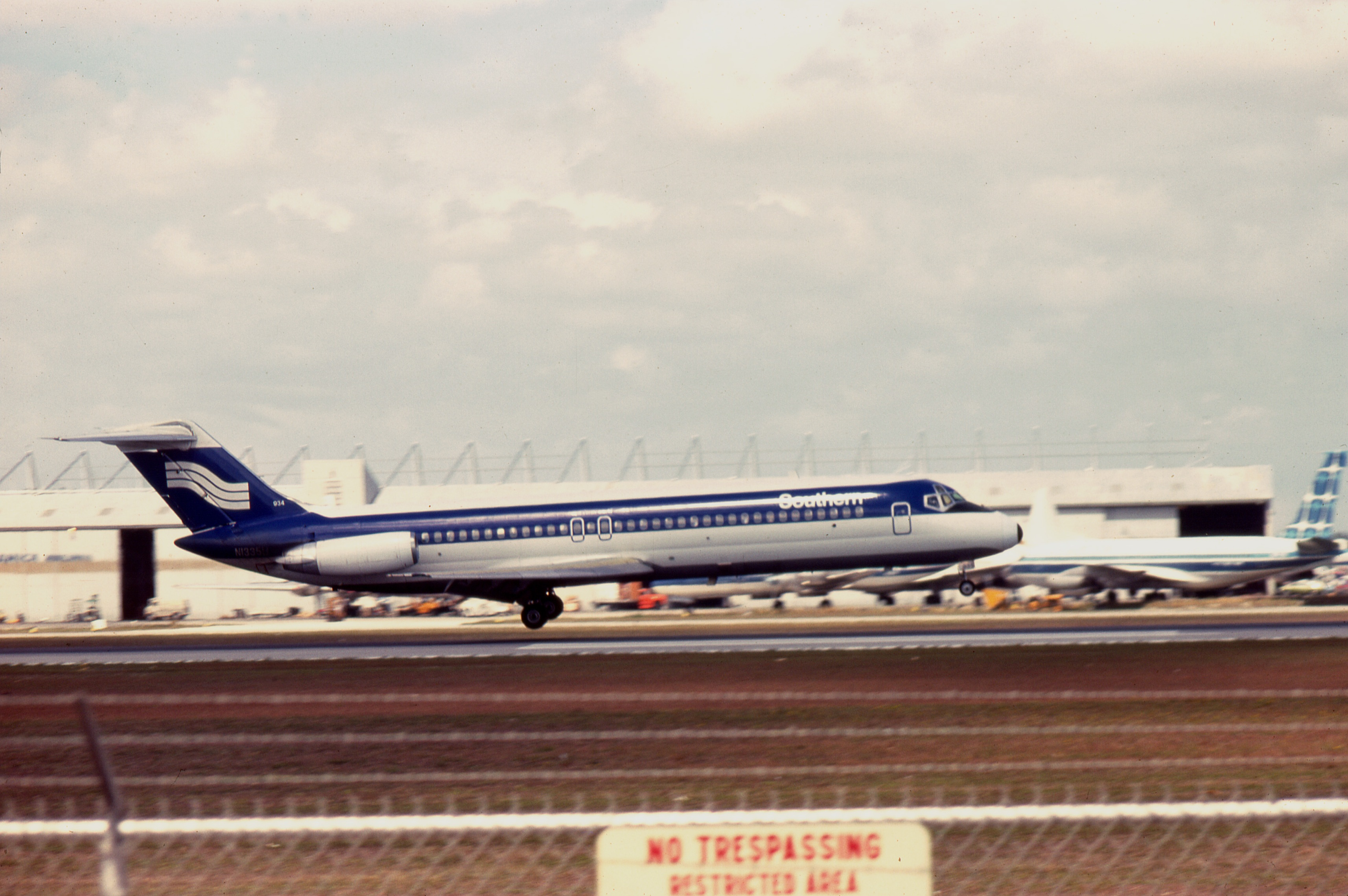 Miami 1977. N1335U, Crashed New Hope, Georgia in April 1977. Clint Groves.